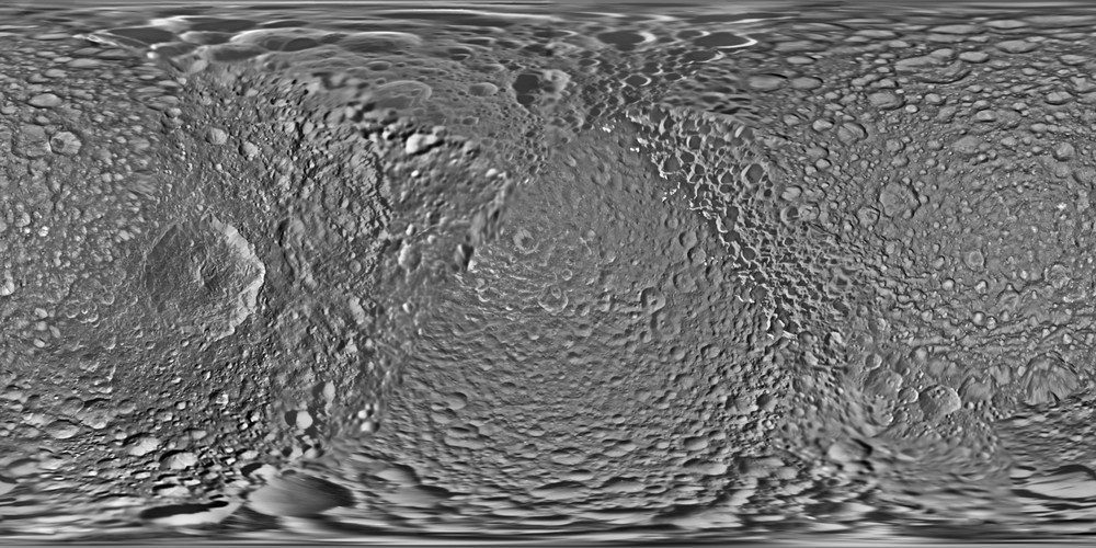 Map of Mimas, rescaled for use in templates, especially location maps.